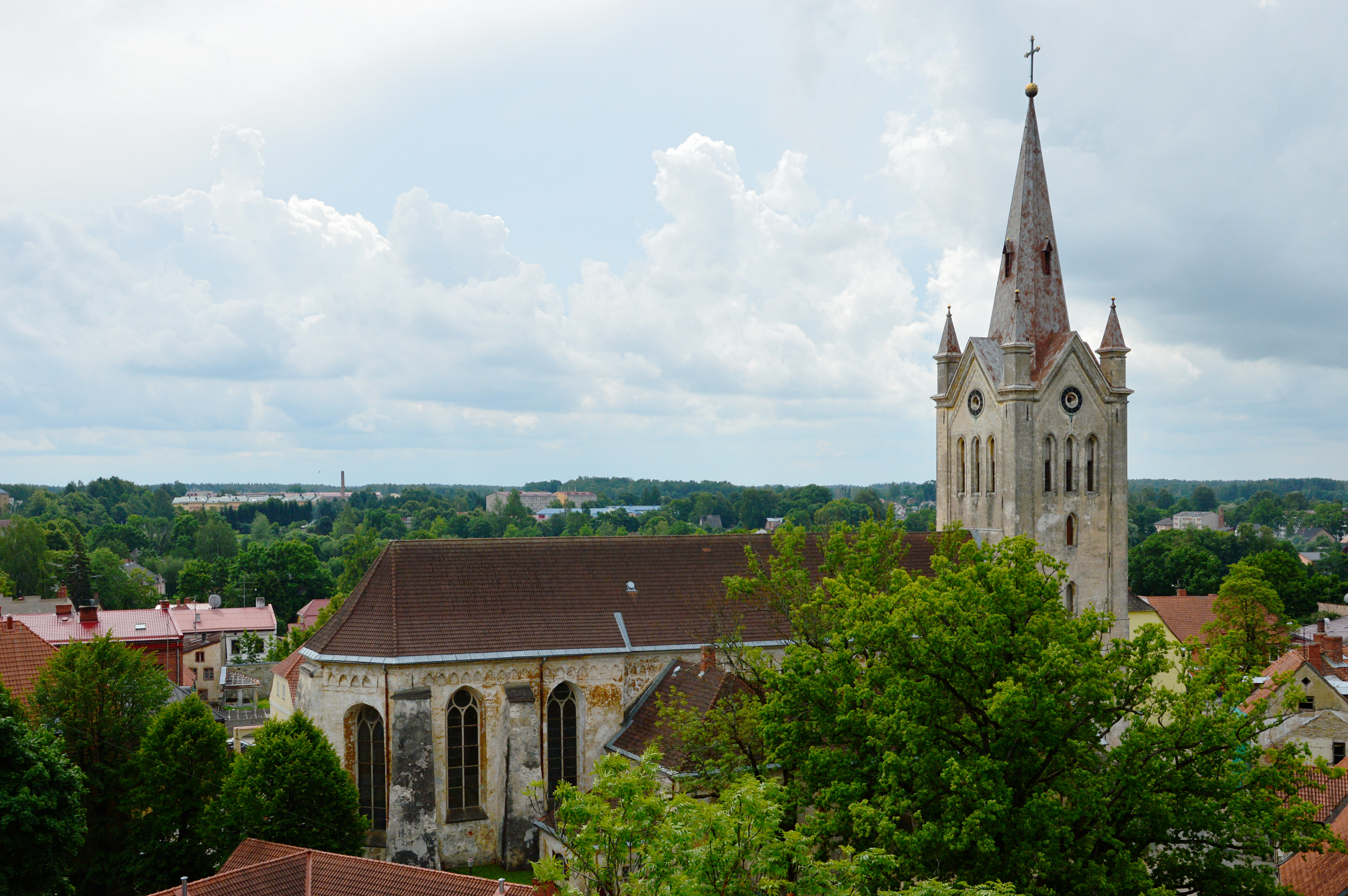 St. John's Lutheran Church, Cesis, Lielā Skolas iela 8Latviešu: Sv.Jāņa luterāņu baznīca, Cēsis, Lielā Skolas iela 8